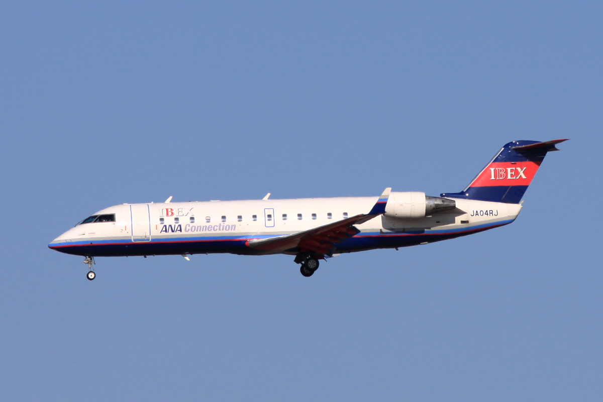 Final Approach to Runway 34R, Narita International Airport, Canadair CL-600-2B19 Regional Jet CRJ-200ER, c/n:7798, Ibex Airlines